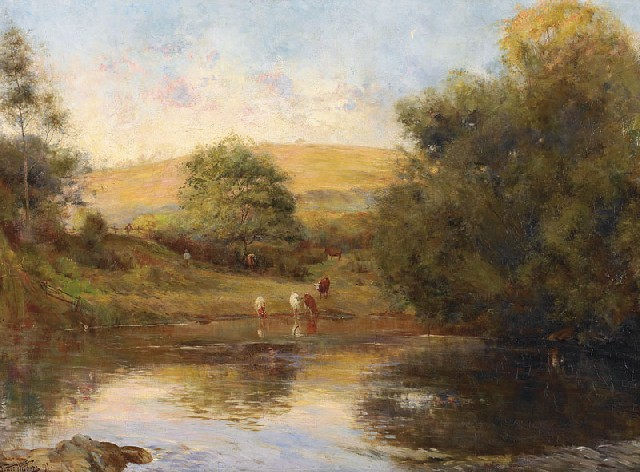 AFTER THE HEAT OF THE DAY (1891) by Walter Withers. Oil on canvas 95 X 127.5cm